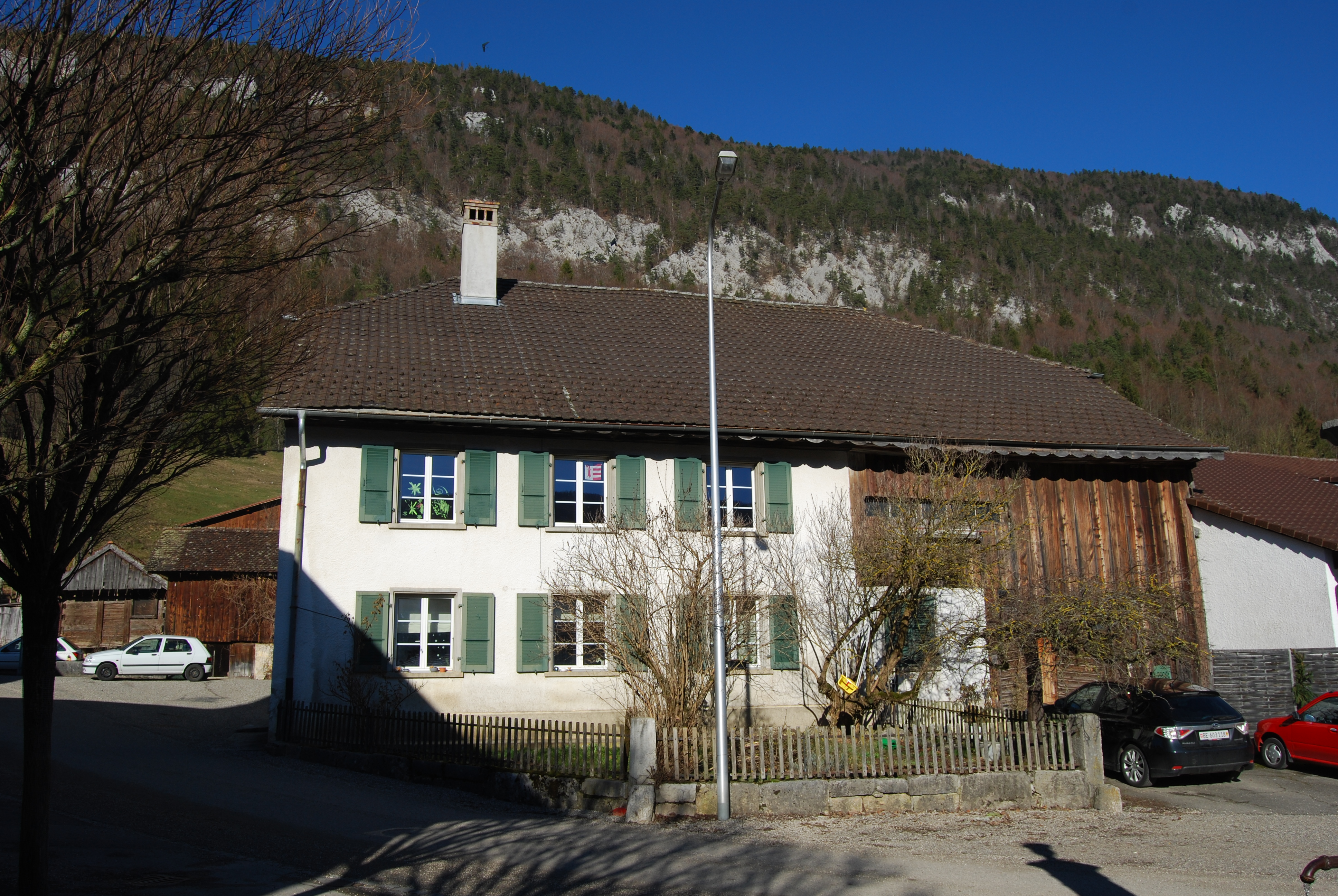 Belprahon, canton of Bern, SwitzerlandEsperanto: Belprahon, Kantono Berno, Svislando